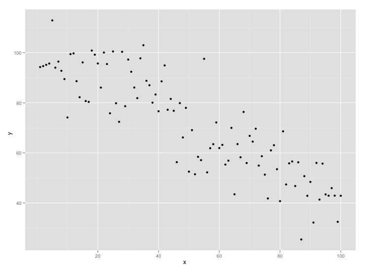 Example scatterplot using default settings for ggplot2